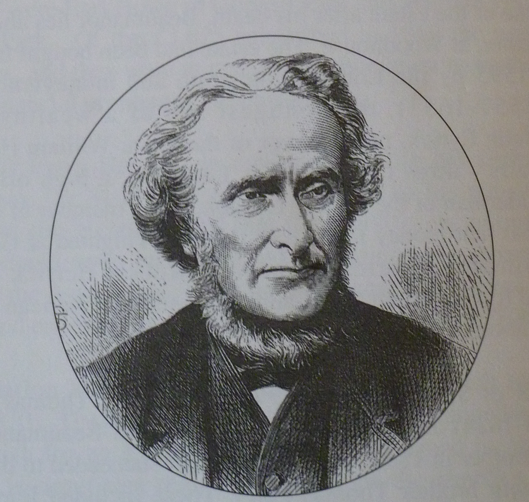 Photograph of an illustration from 'The Builder' of 21st May 1870. Ewan Christian, architect, aged 55